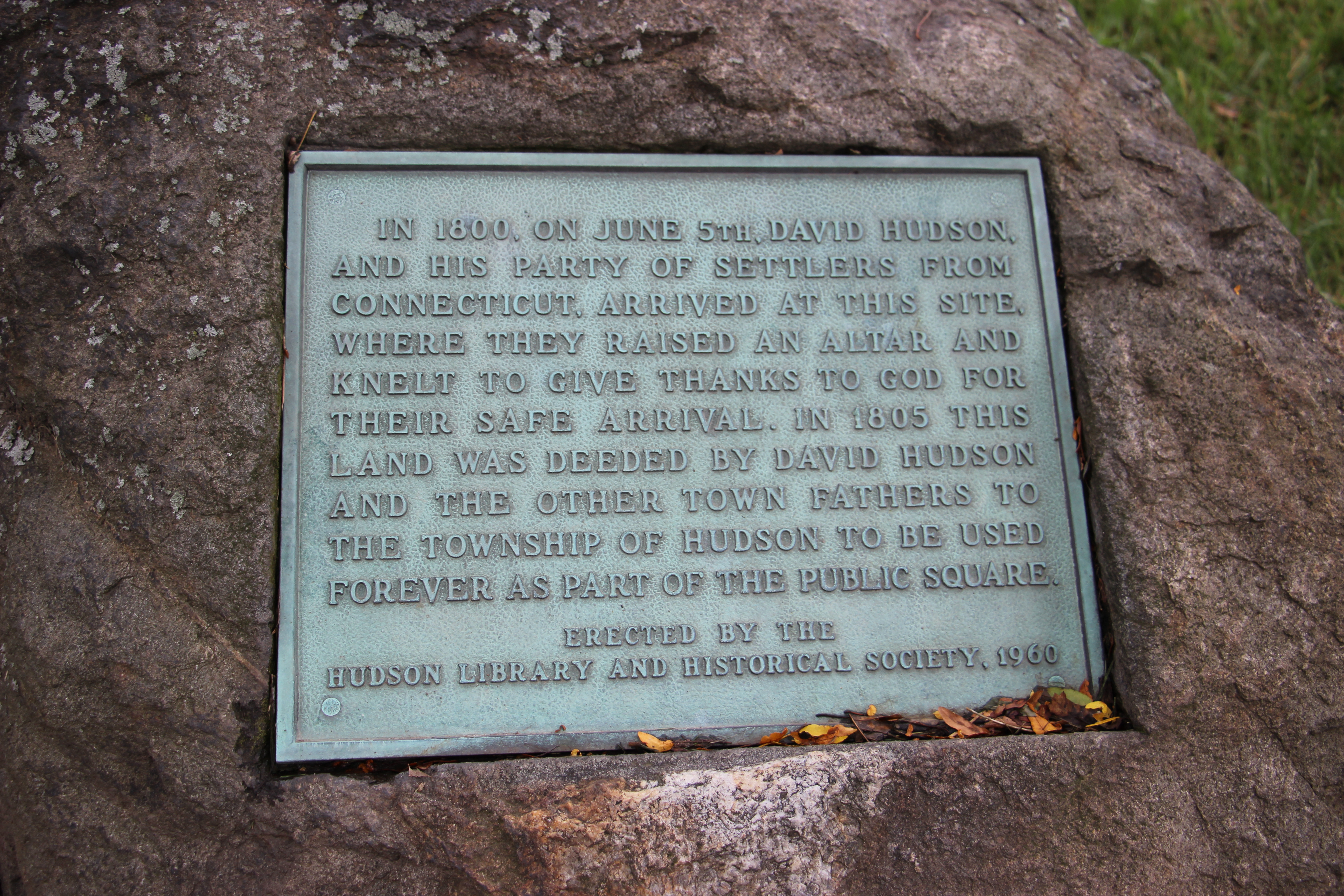 A closeup of the stone and marker in Hudson, Ohio, dedicated to the city's founder David Hudson and other town fathers for their settling and dedication of the land as a public square. This marker was erected in 1960 by the Hudson Library and Historical Society.